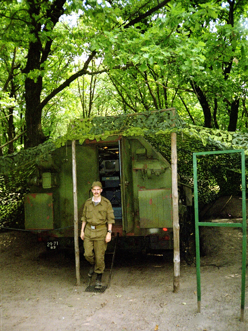 Polyana-D4 command post, controlling a Buk SAM system of the Russian military.